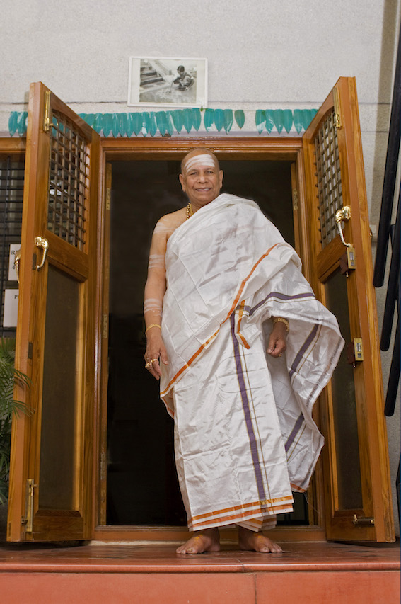 Pattabhi Jois in front of KPJAYI in Mysore, India 2006